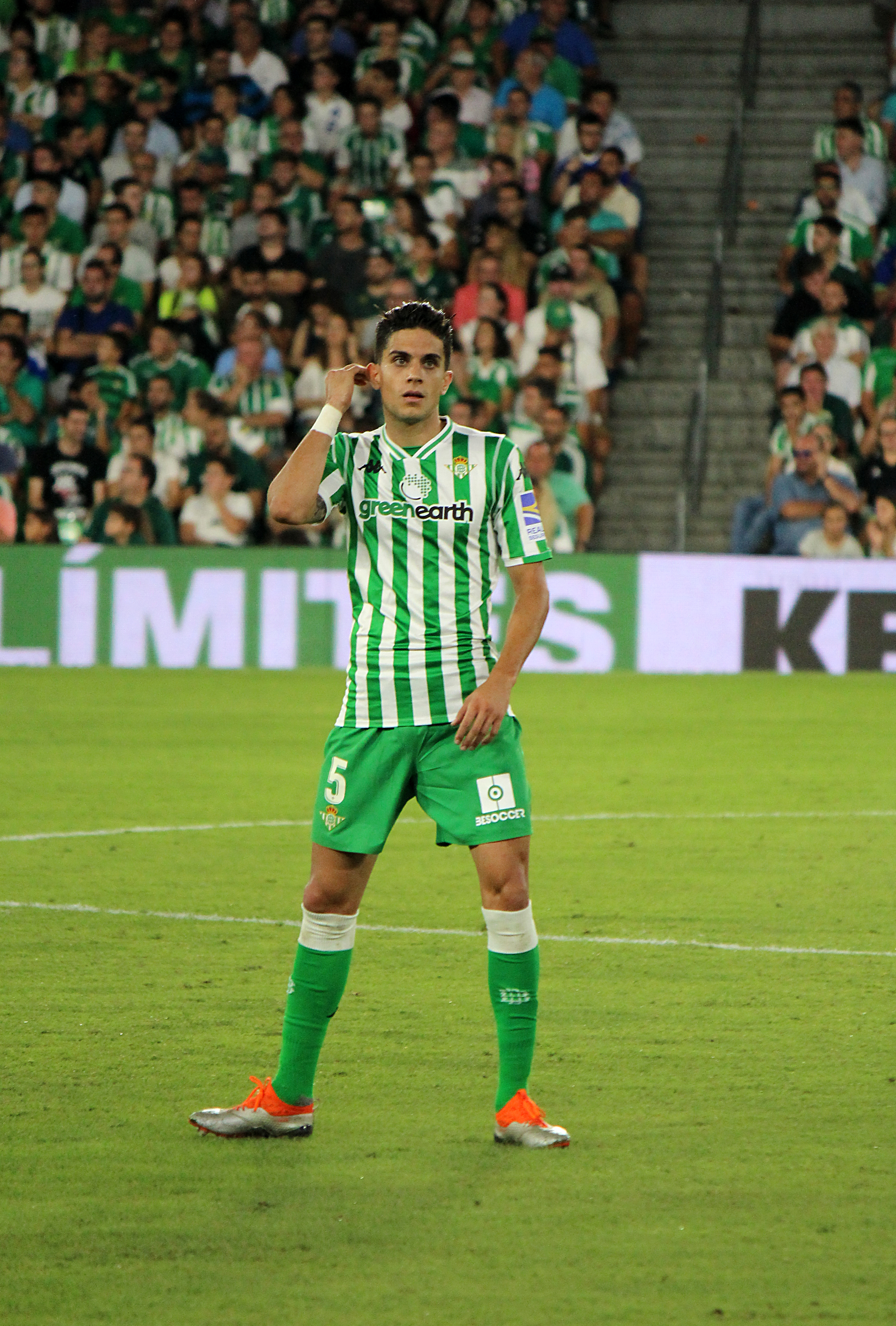 Marc Bartra during a match.